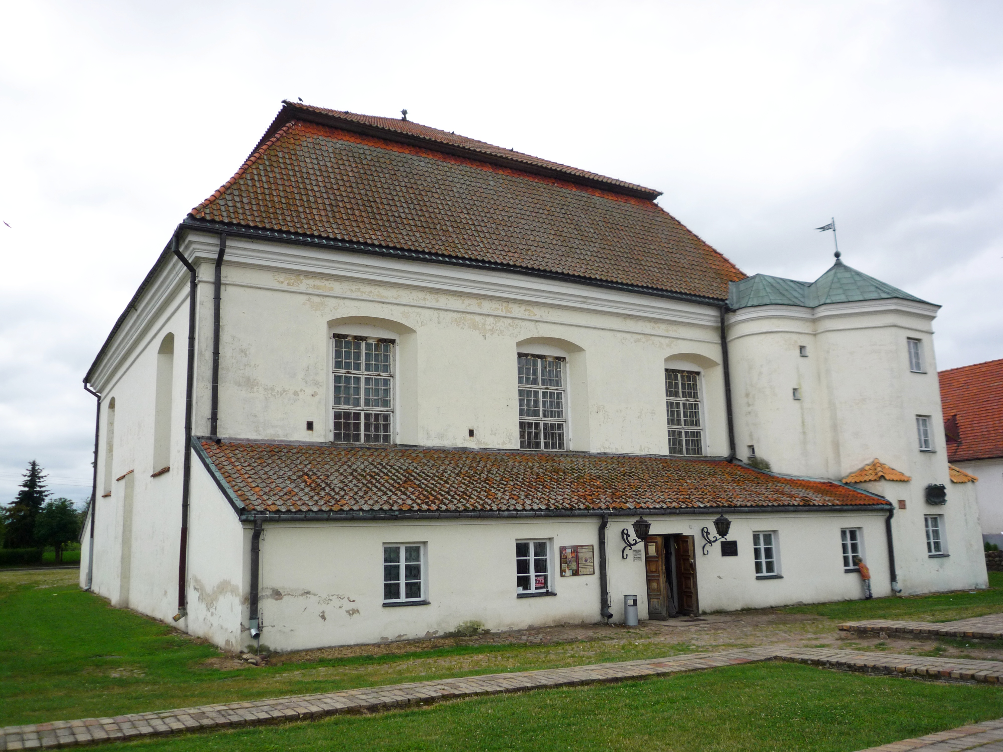 Great Synagogue in Tykocin